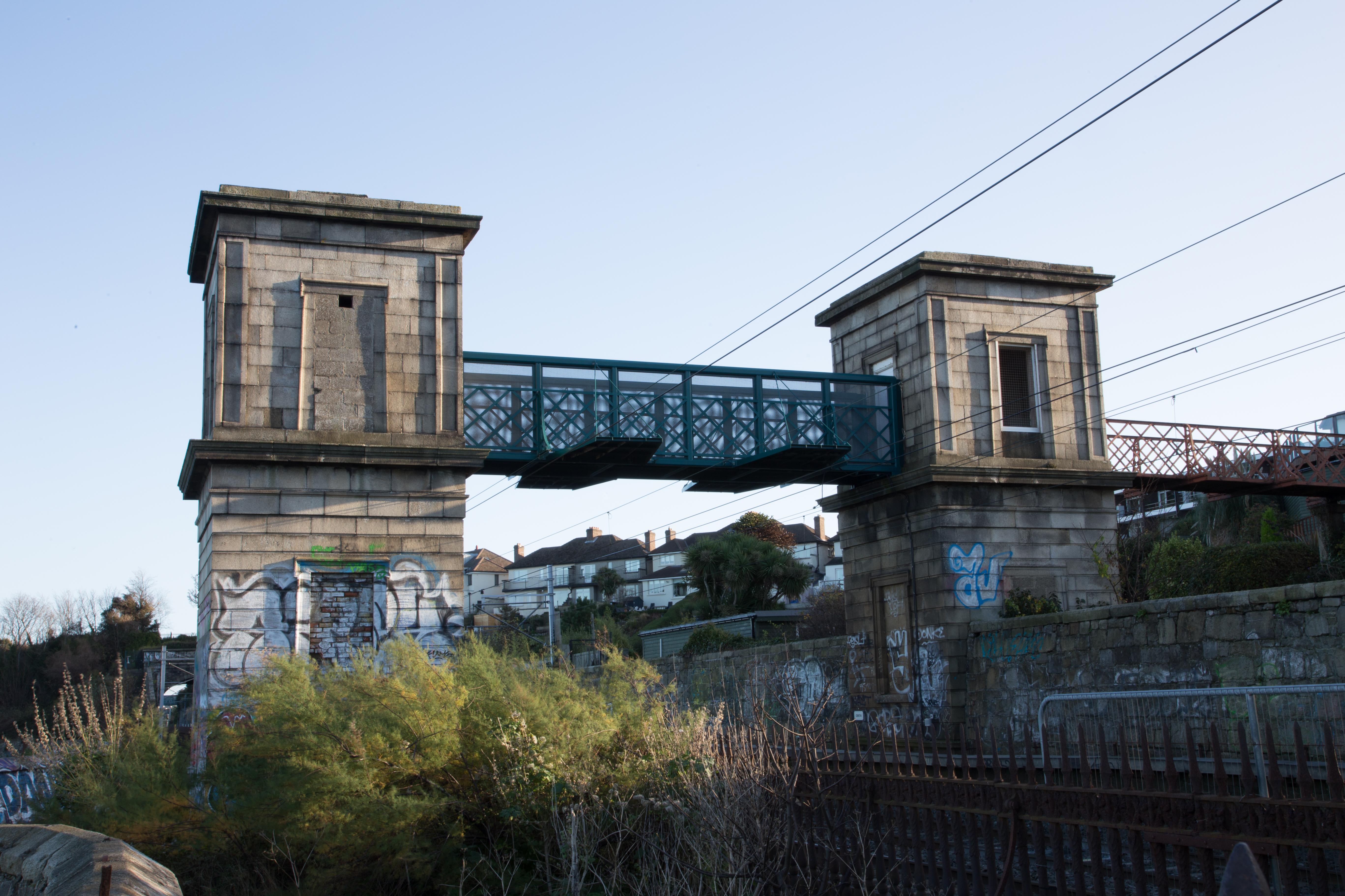 The bridge over the DART line built for Lord Cloncurry near Blackrock, Co. Dublin, Ireland